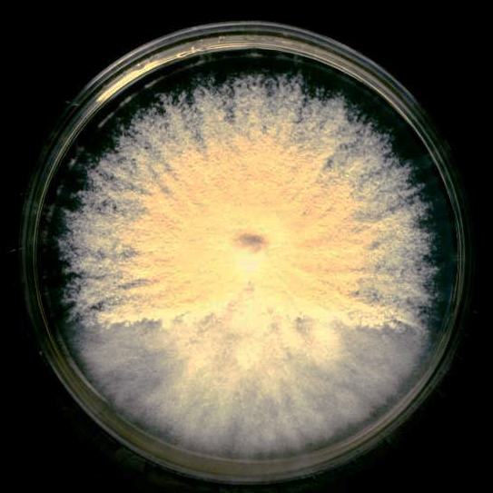 Microsporum gypseum colony. RC Summerbell and James Scott